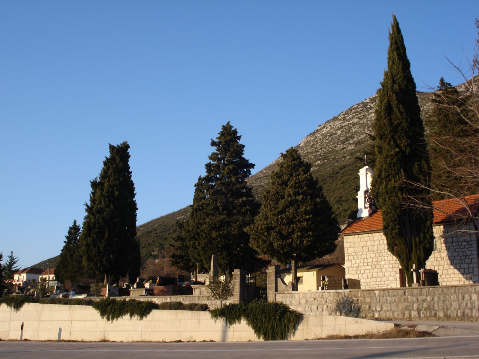 Ravča, near Vrgorac.